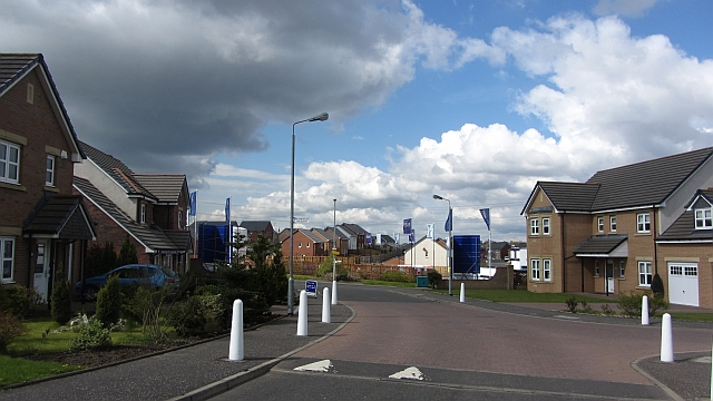 Calderbank Road, Broomhouse